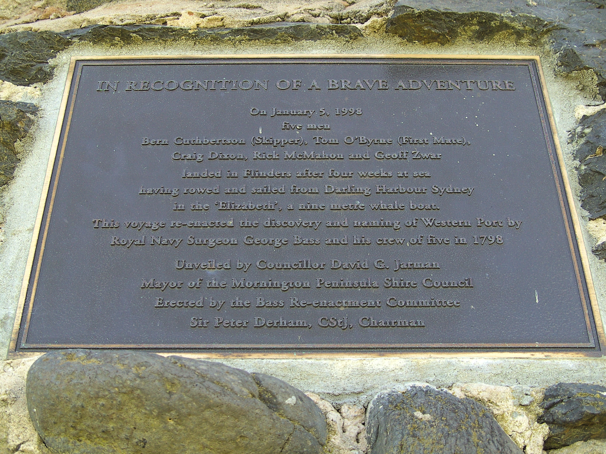 Plaque commemorating the 200th anniversary re-enactment in 1998 of the discovery of Western Port by George Bass on 4 January 1798; sited on the reverse face of the Bass-Flinders memorial at the Western Port town of Flinders.